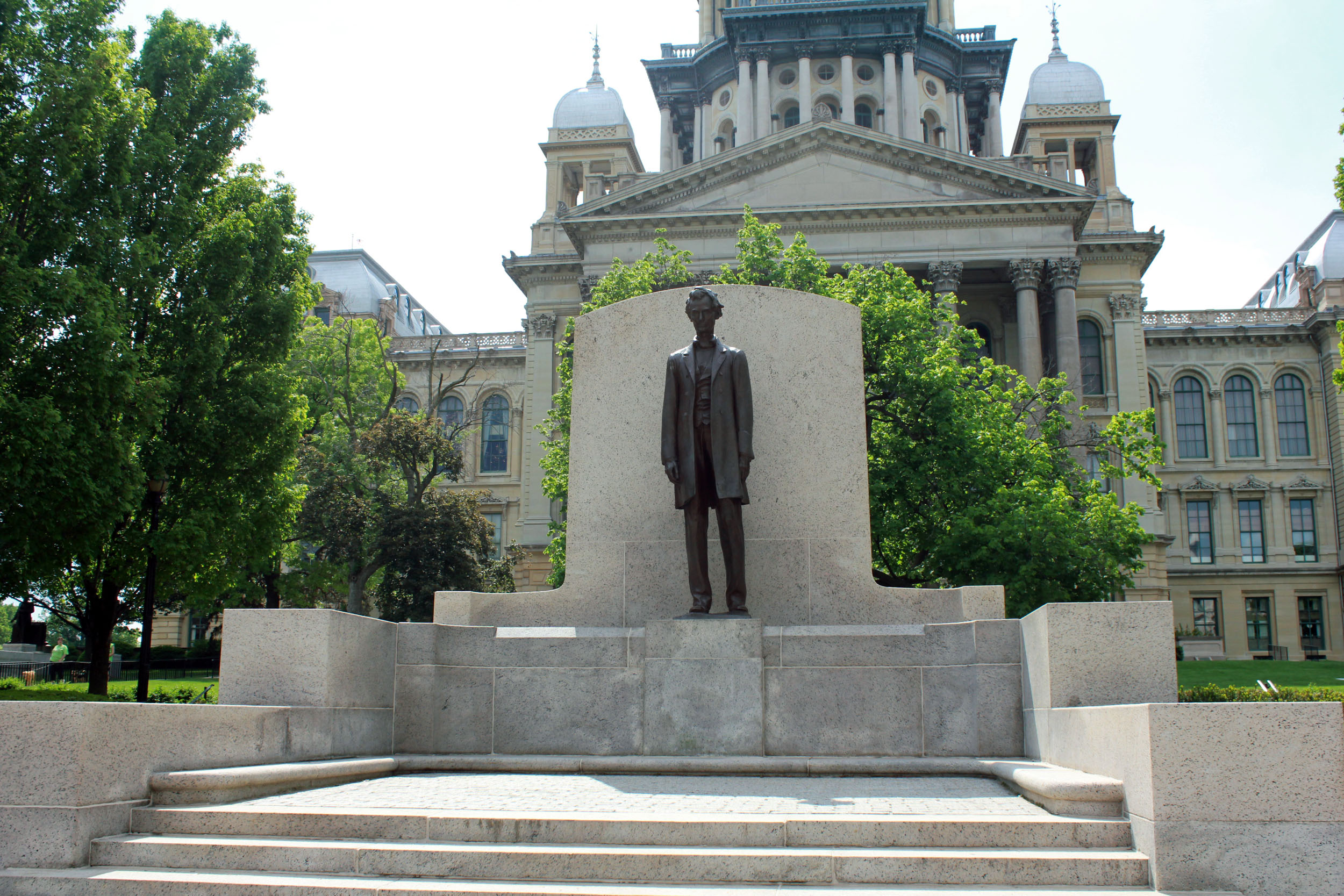 1918 bronze Abraham Lincoln statue by Andrew O'Connor (1874-1941) on the east side of the Illinois State Capitol, and intended by the sculptor to depict Abraham Lincoln's Farewell Address Original caption: "Pictures of the capital of Illinois, a city of roughly 117,000."